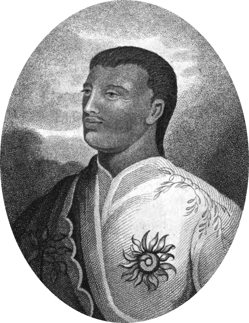 Pōmare II (1774-1821), second king of Tahiti between 1782 and 1821